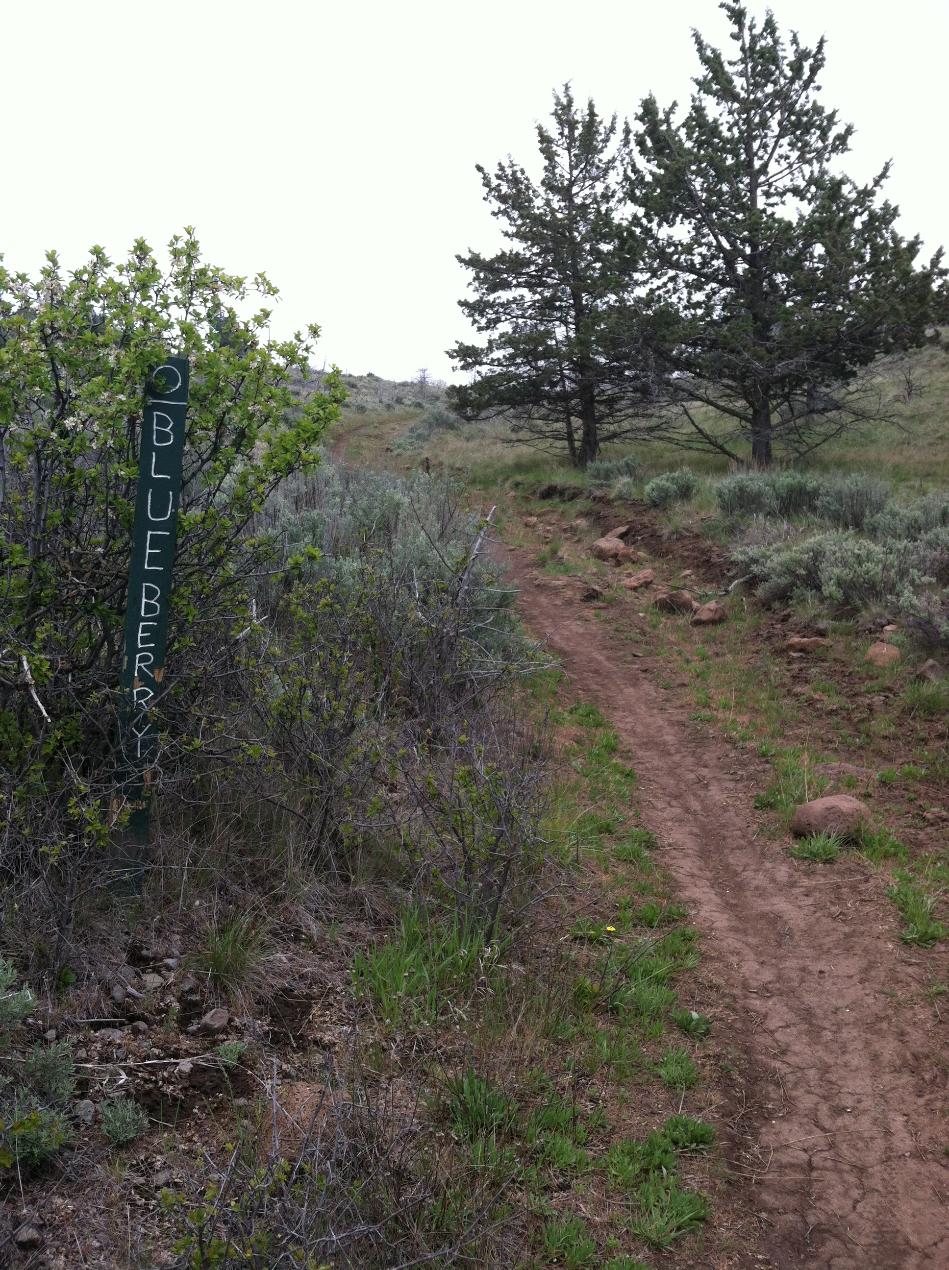 One of the trails within Moore park back hills, klamath falls, OR.